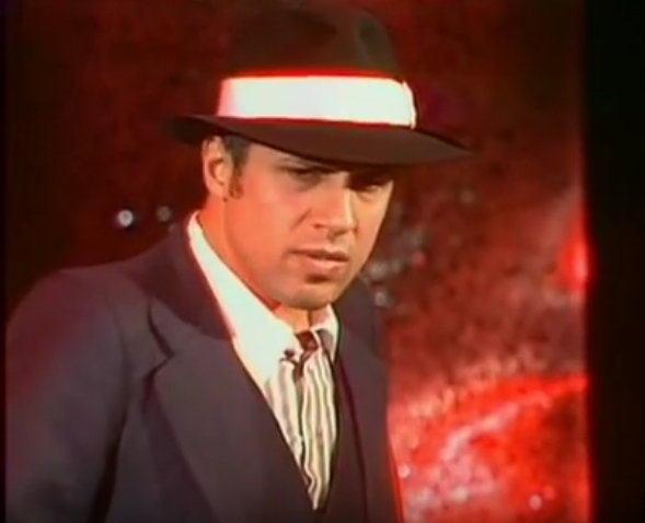 Don't Play That Song